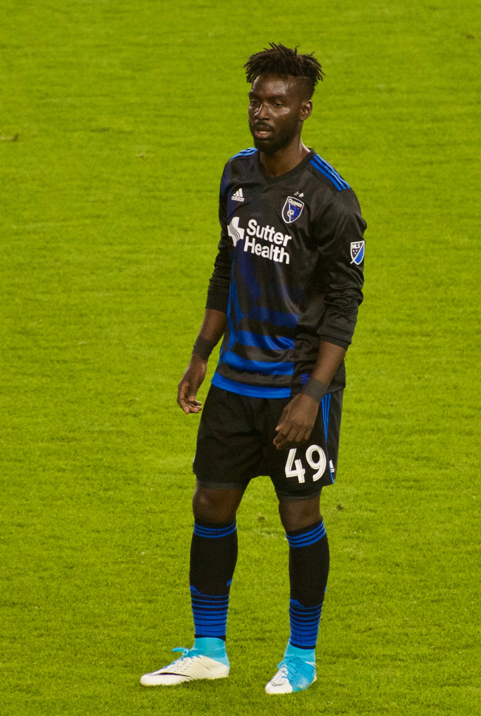 Simon Dawkins playing for San Jose Earthquakes at Avaya Stadium on 8 April 2017.